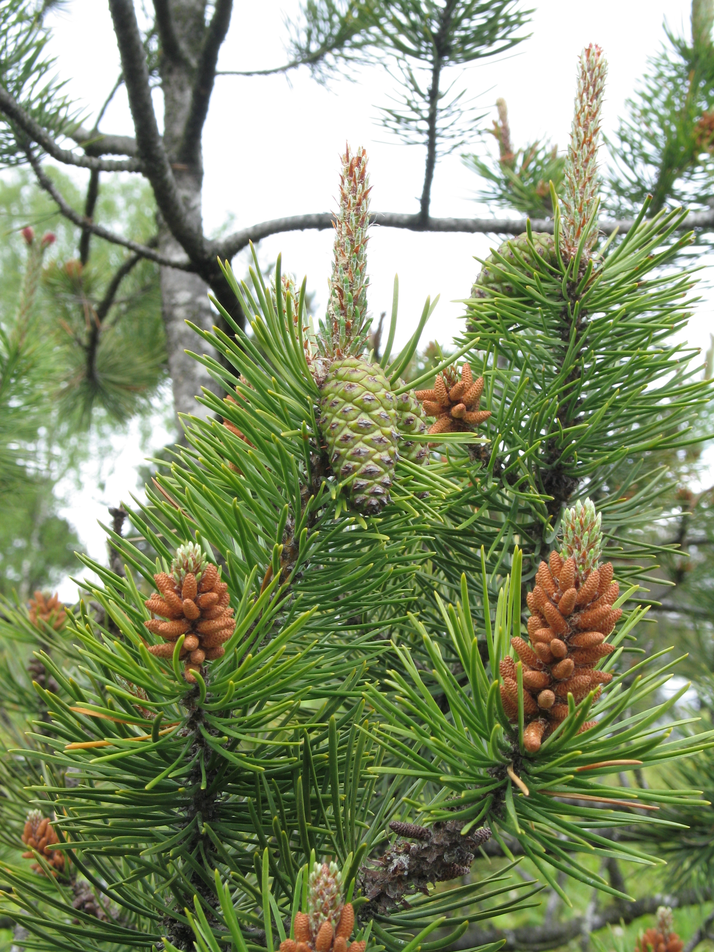 Shore Pine (Pinus contorta subsp. contorta), Richmond Nature Park, Richmond, B. C., Canada (location data below for the park). This is the only taxon of pine that is known to grow on the peat of this area.